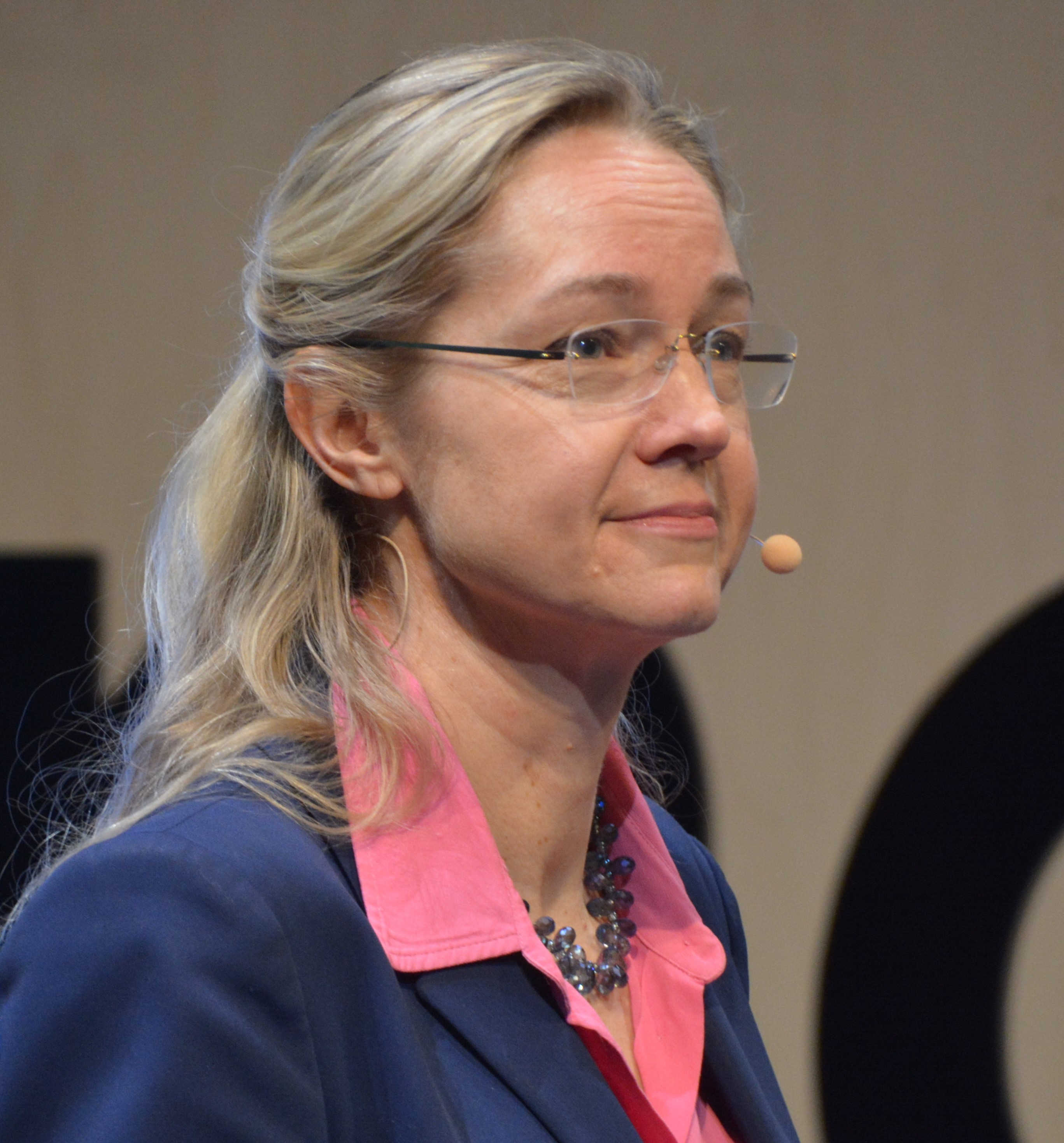 Cecilia Skingsley på Nordnet Live 2017